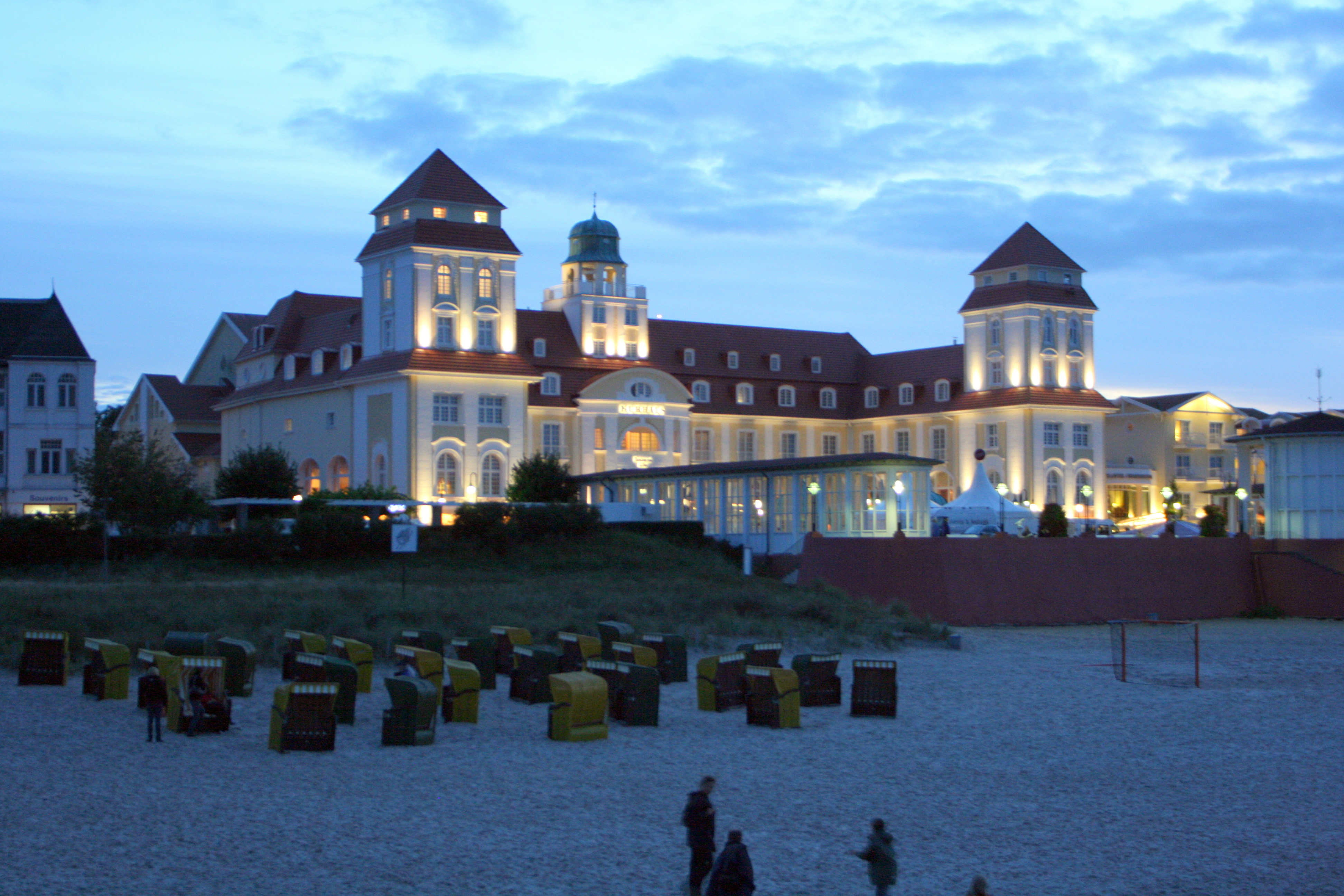 Kurhaus Binz at night